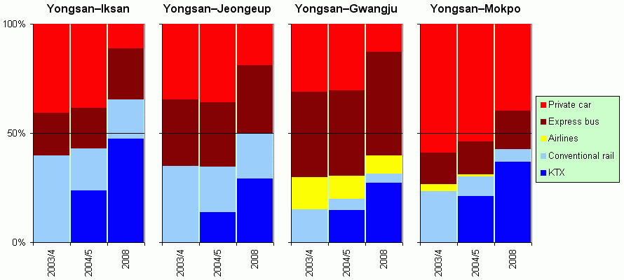 Evolution of intercity passenger transport modal shares for selected relations in the Honam corridor with the introduction of KTX services